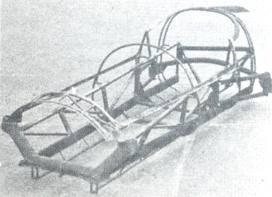 Telaio Bandini formula junior 1959 picture by Bandini book